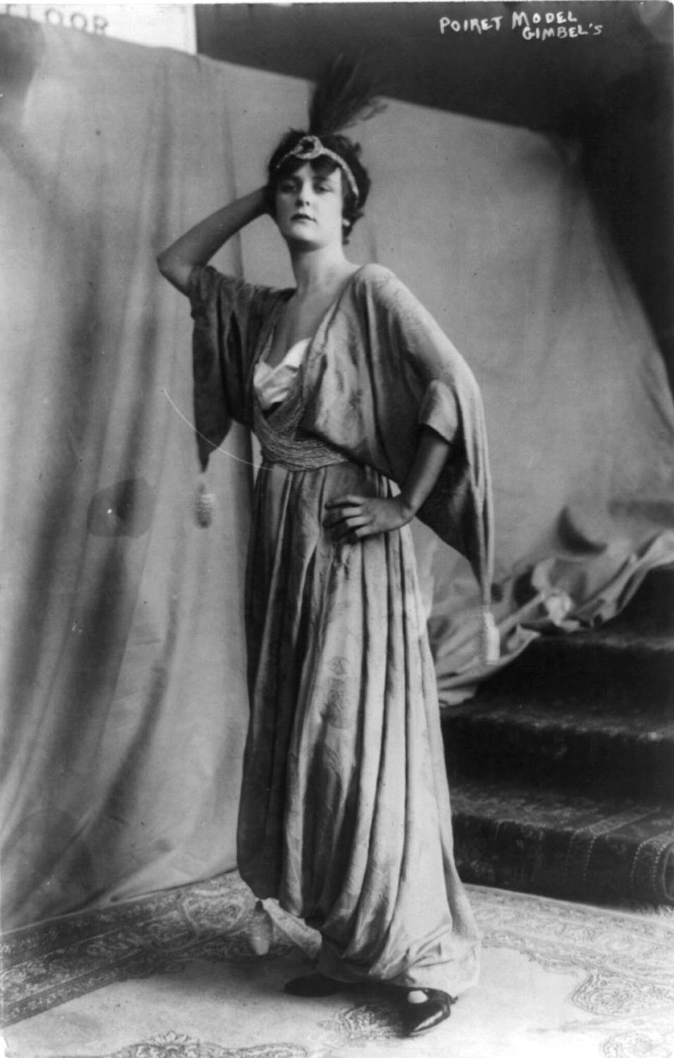 TITLE: Poiret model - Gimbels CALL NUMBER: LOT 7177 [item] [P&P] Check for an online group record (may link to related items) REPRODUCTION NUMBER: LC-USZ62-85524 (b&w film copy neg.) No known restrictions on publication. SUMMARY: Model wearing gown, full lgth., facing slightly left. MEDIUM: 1 photographic print. CREATED/PUBLISHED: 1914 March. NOTES: Photo by Bain News Service. Title and other information transcribed from caption card and item. George Grantham Bain Collection (Library of Congress). Caption card tracings: Clothing; Models. REPOSITORY: Library of Congress Prints and Photographs Division Washington, D.C. 20540 USA DIGITAL ID: (b&w film copy neg.) cph 3b32052 CARD #: 2002714473